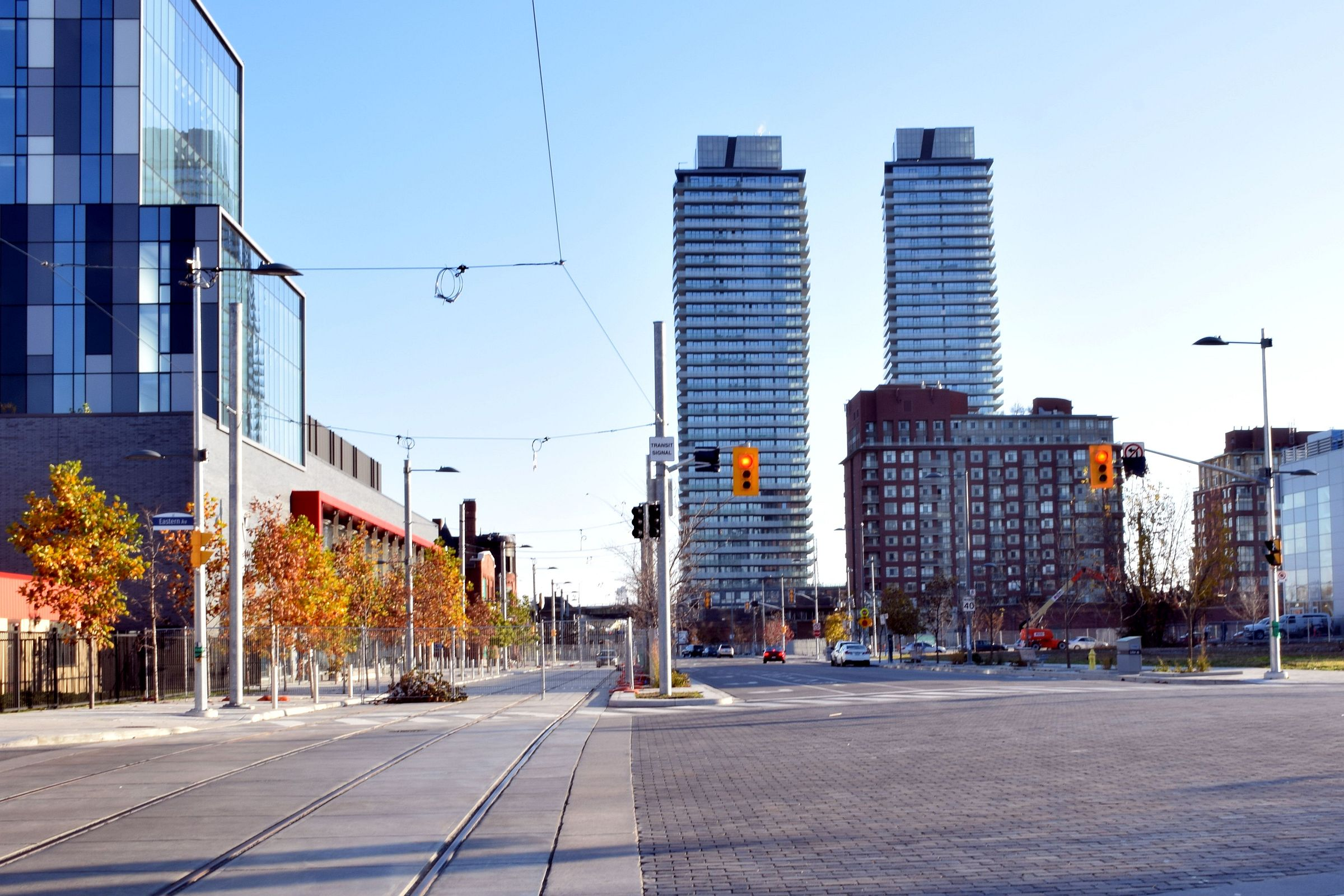 Construction of the Cherry Street streetcar line. Looking south from Eastern Avenue and showing the full width of the reconstruction of the street.